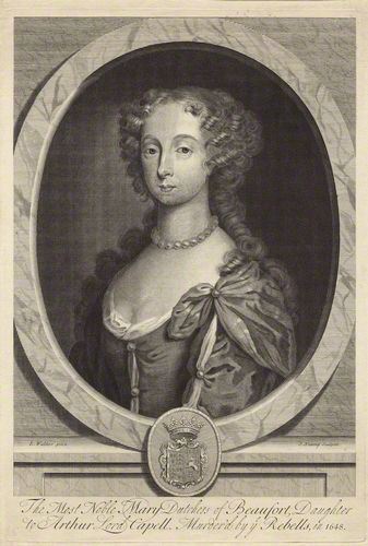 Portrait of Mary Somerset, Duchess of Beaufort (1630–1715)